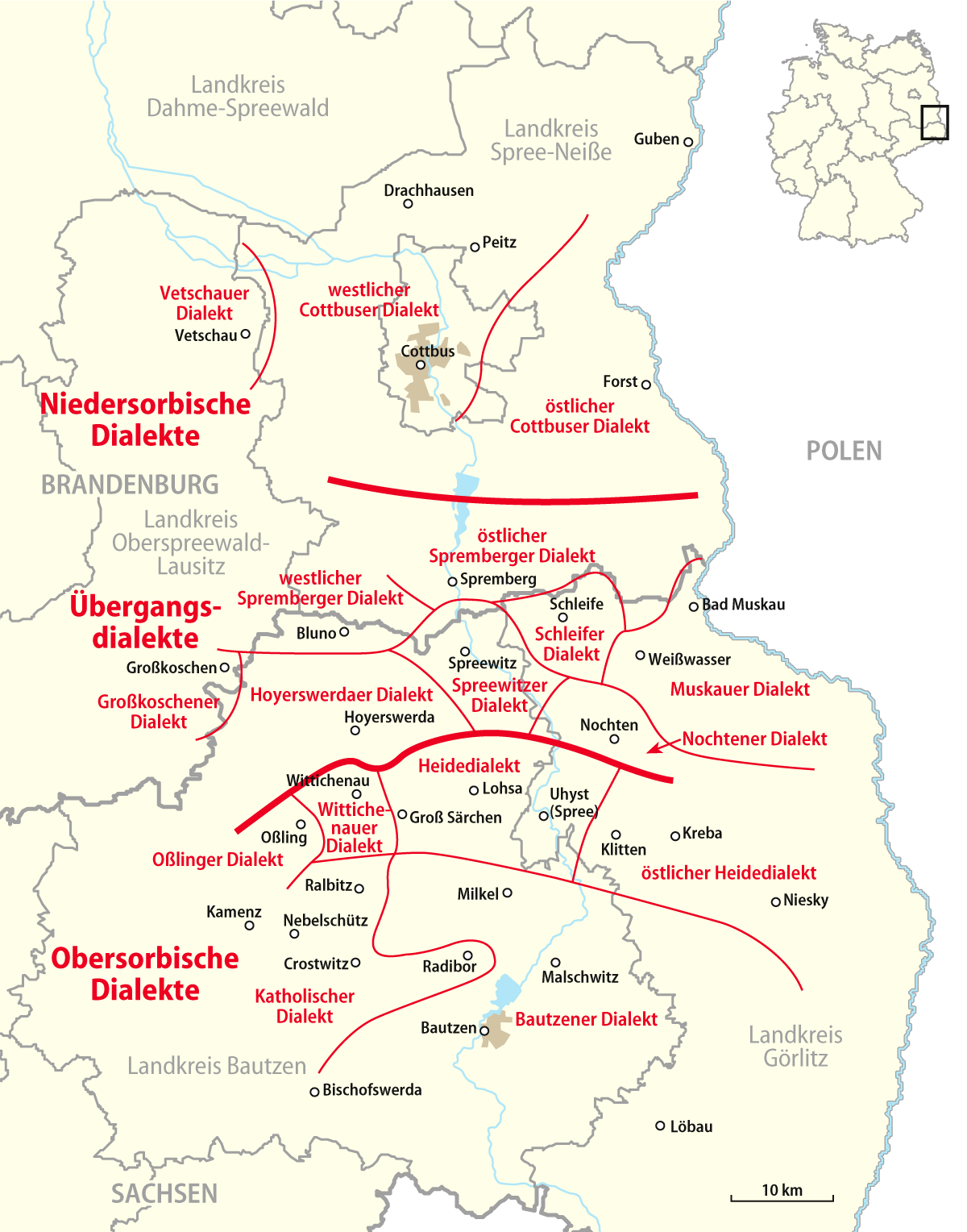 Map of the Sorbian dialects, German version